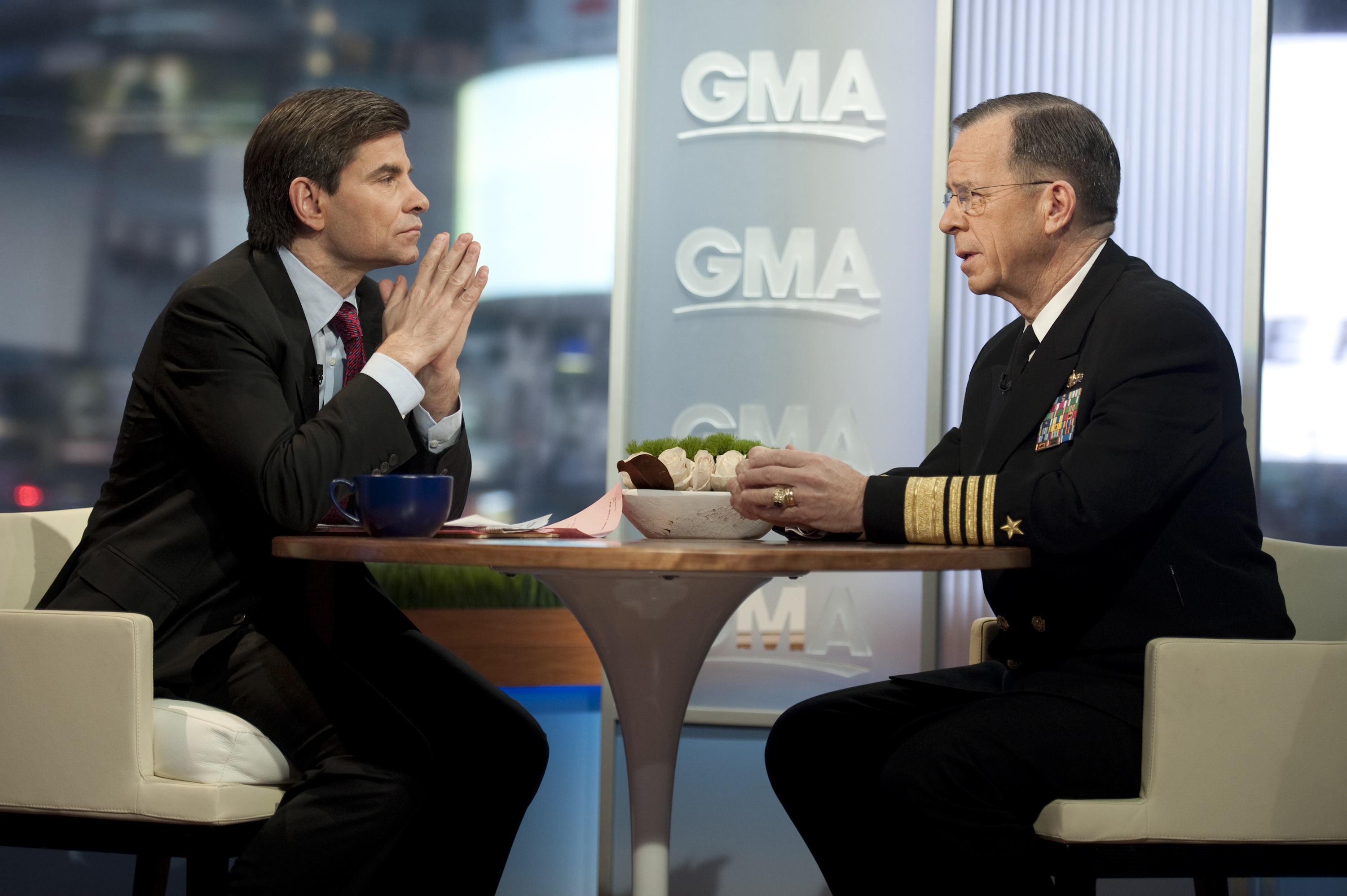 NEW YORK (Feb. 4, 2011) Chairman of the Joint Chiefs of Staff Adm. Mike Mullen is interviewed by Good Morning America's George Stephanopoulos. Mullen discussed the civil unrest in Egypt during the morning show interview. (U.S. Navy photo by Mass Communication Specialist 1st Class Chad J. McNeeley/Released)